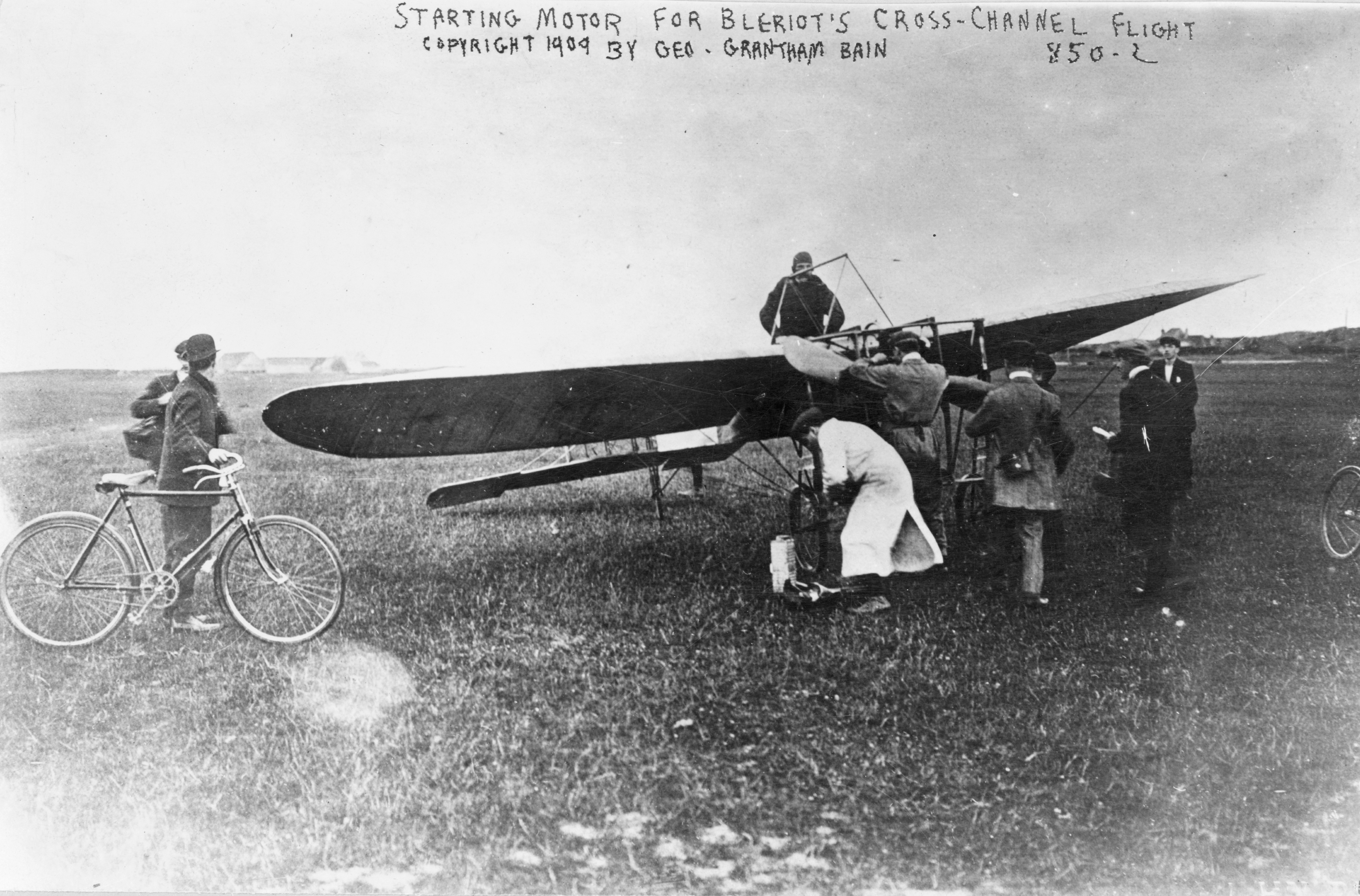 Louis Blériot in his aircraft just before takeoff for his cross-channel flight, 25 July 1909